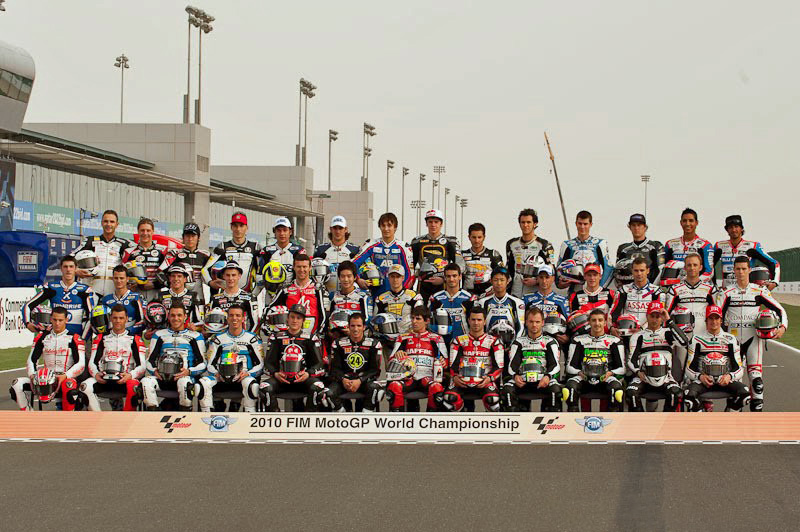 Moto2 riders 2010 Qatar